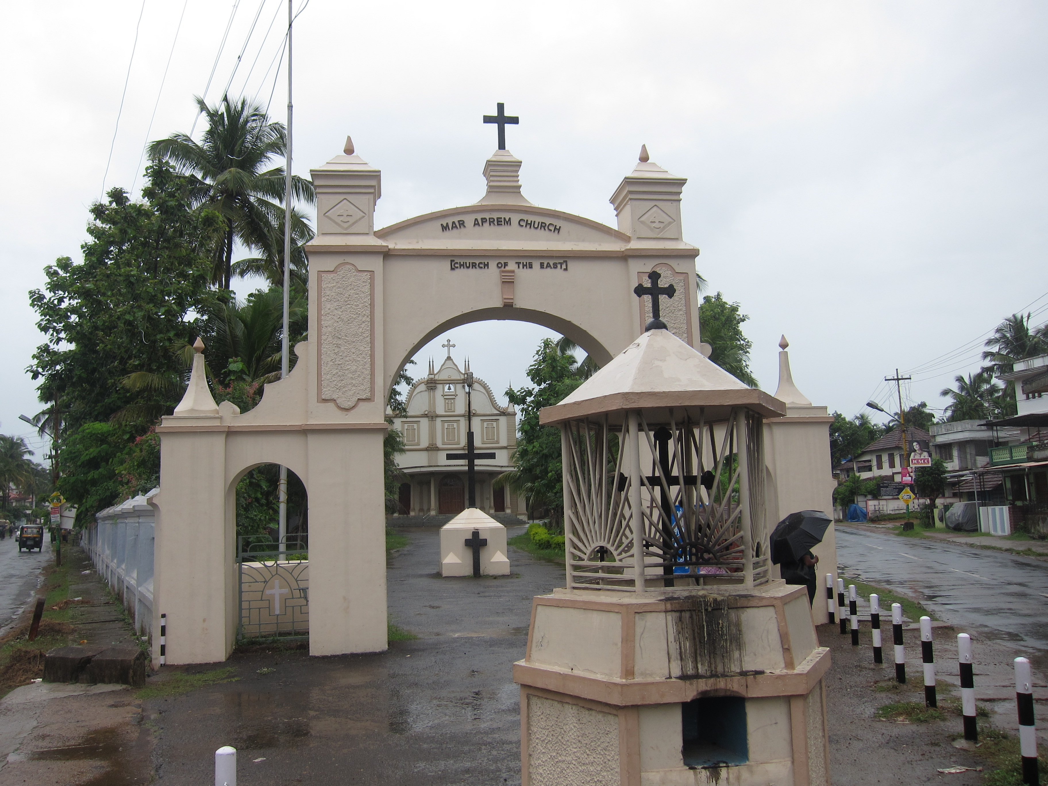 Mar Aprem #Church , Chelakkottukara, Thrissur Church of the East 2 km away from Thrissur